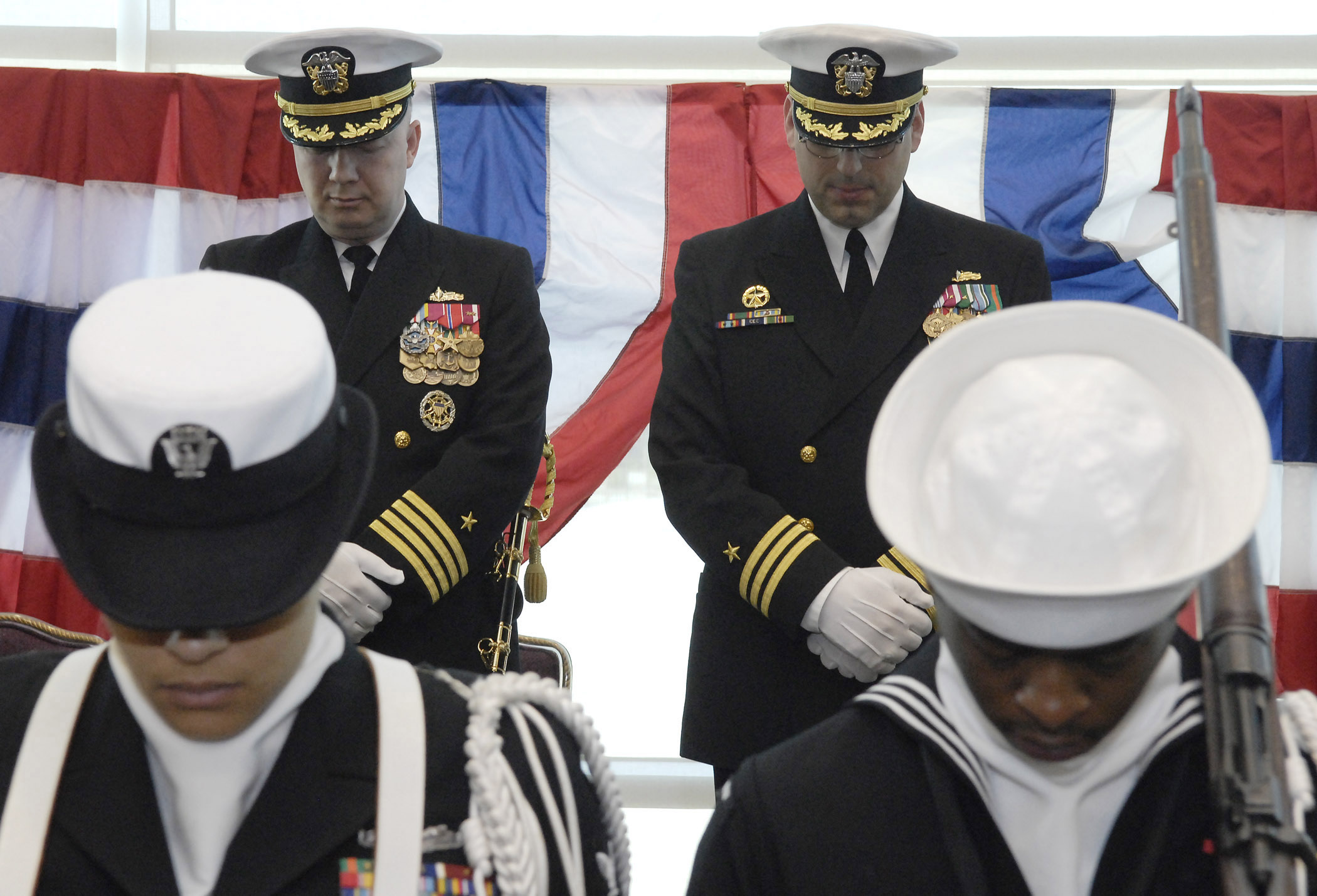 Naval Station Everett (Jan. 12, 2006) - Capt. Jeffrey Harley, Commander Destroyer Squadron Nine (DESRON 9), left, and Cmdr. Jonathan Christian, Commodore Afloat Training Group Pacific Northwest, right, bow their heads during the invocation at the beginning of the change of command ceremony held for Afloat Training Group Pacific Northwest in the Grand Vista Ballroom at Naval Station Everett. U.S. Navy photo by Mass Communication Specialist 3rd Class Jordon R. Beesley (RELEASED)